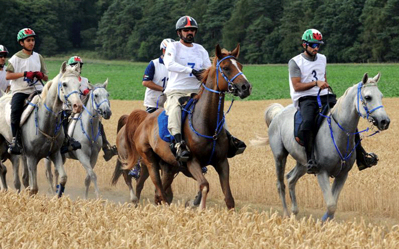 Sheikh Mohammed bin Rashid Al Maktoum and Sheikh Hamdan bin Mohammed Al Maktoum participate in an Endurance ride.